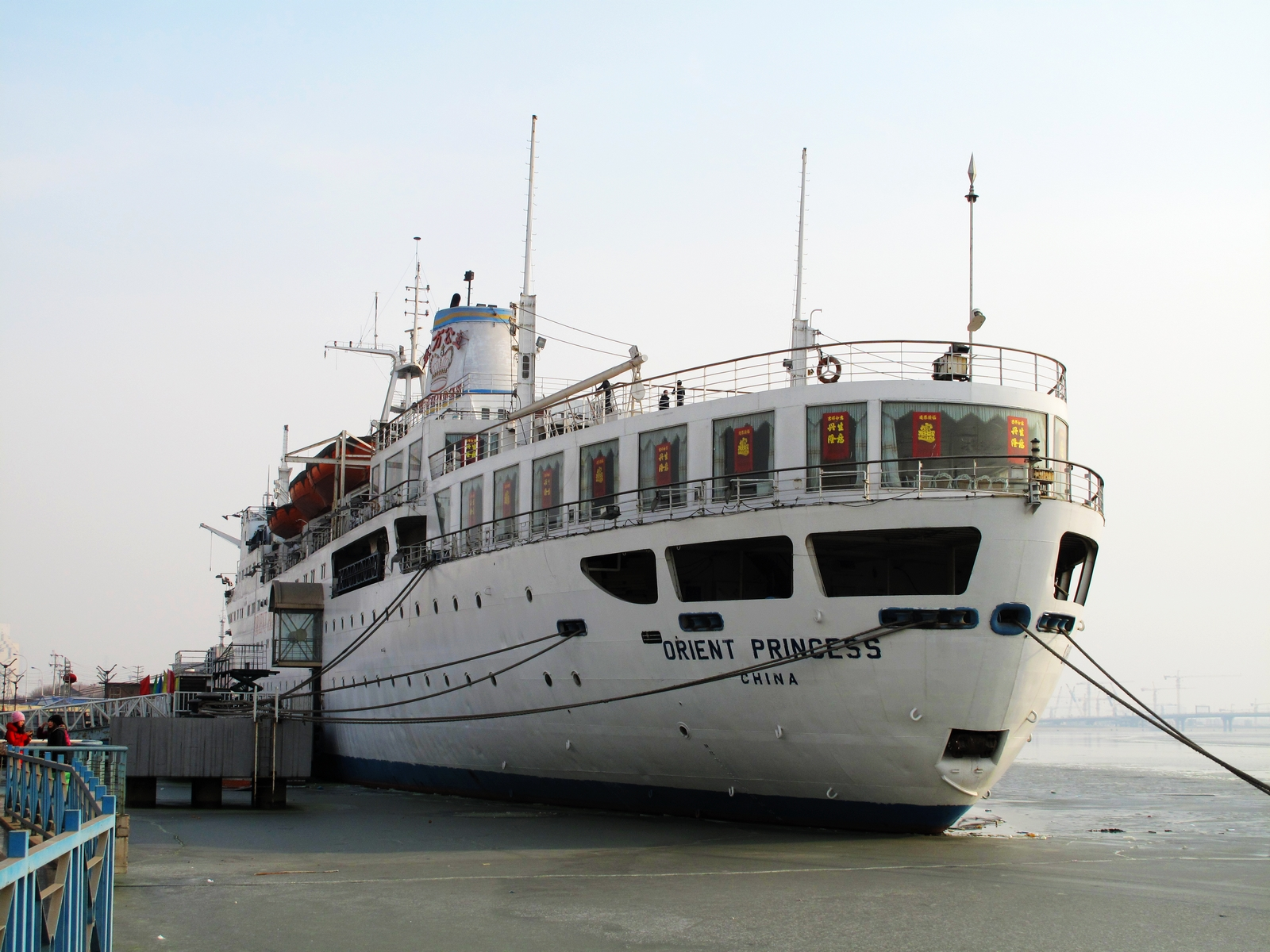 Oriental Princess